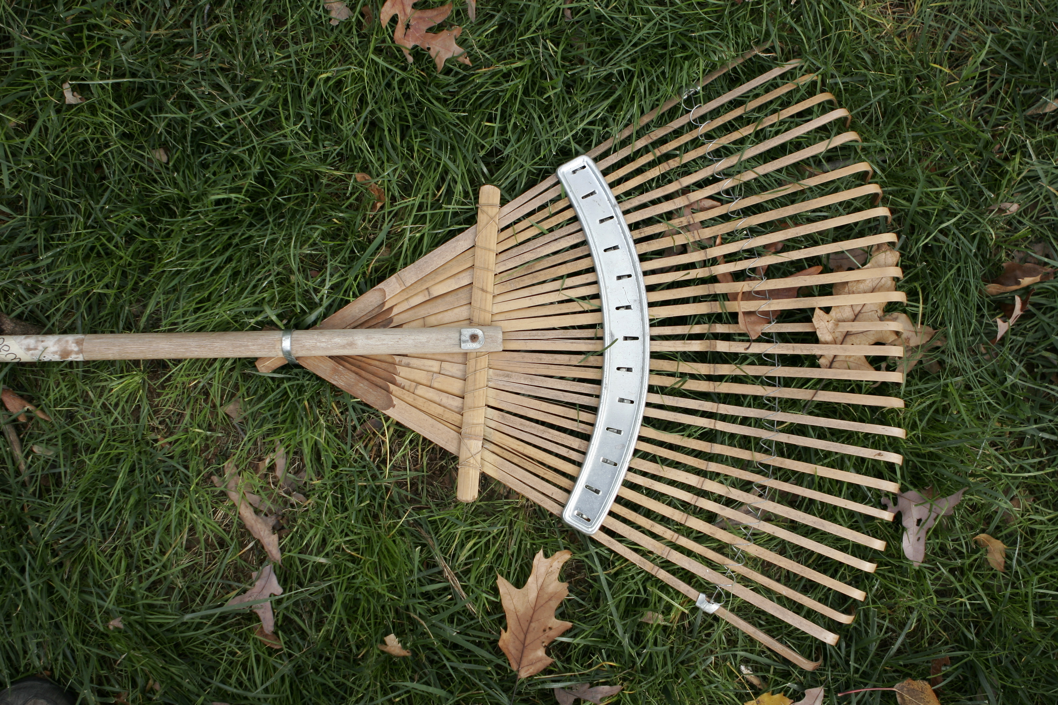 A fan-shaped leaf rake (made of bamboo or wood?)